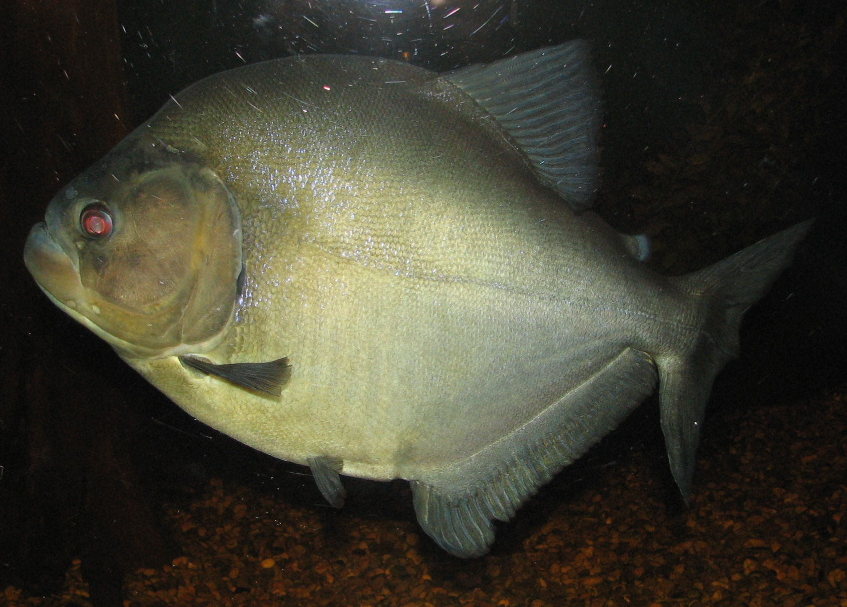 Black Pirahna Serrasalmus rhombeus at the Louisville Zoo